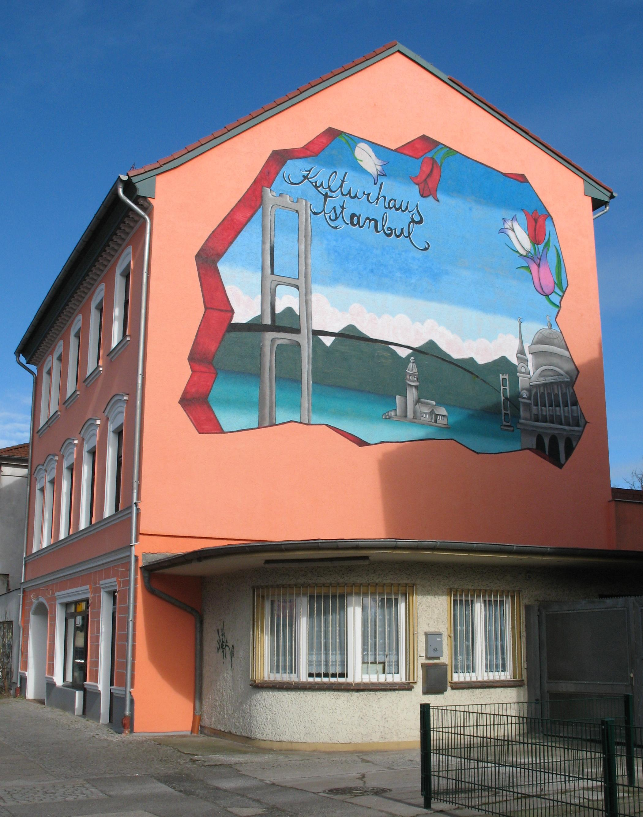 Building in Bernau in Brandenburg, Germany